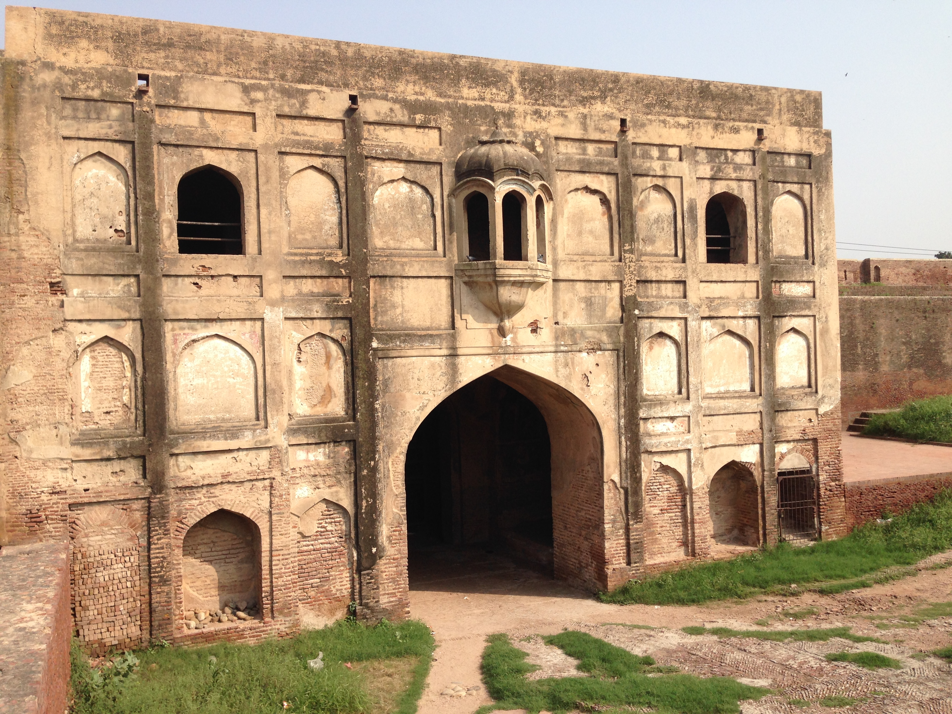 Lahore Fort complex (including Moti Masjid, Naulakha Pavilion, Sheesh Mahal and others) This is a photo of a monument in Pakistan identified as the PB-67